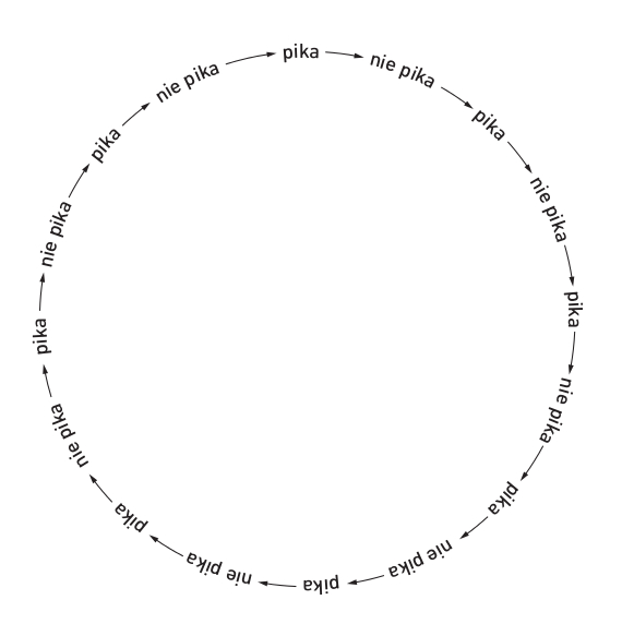 A concrete poem entitled "01" by Witold Szwedkowski in a typographic arrangement by Bartek Smoczyński